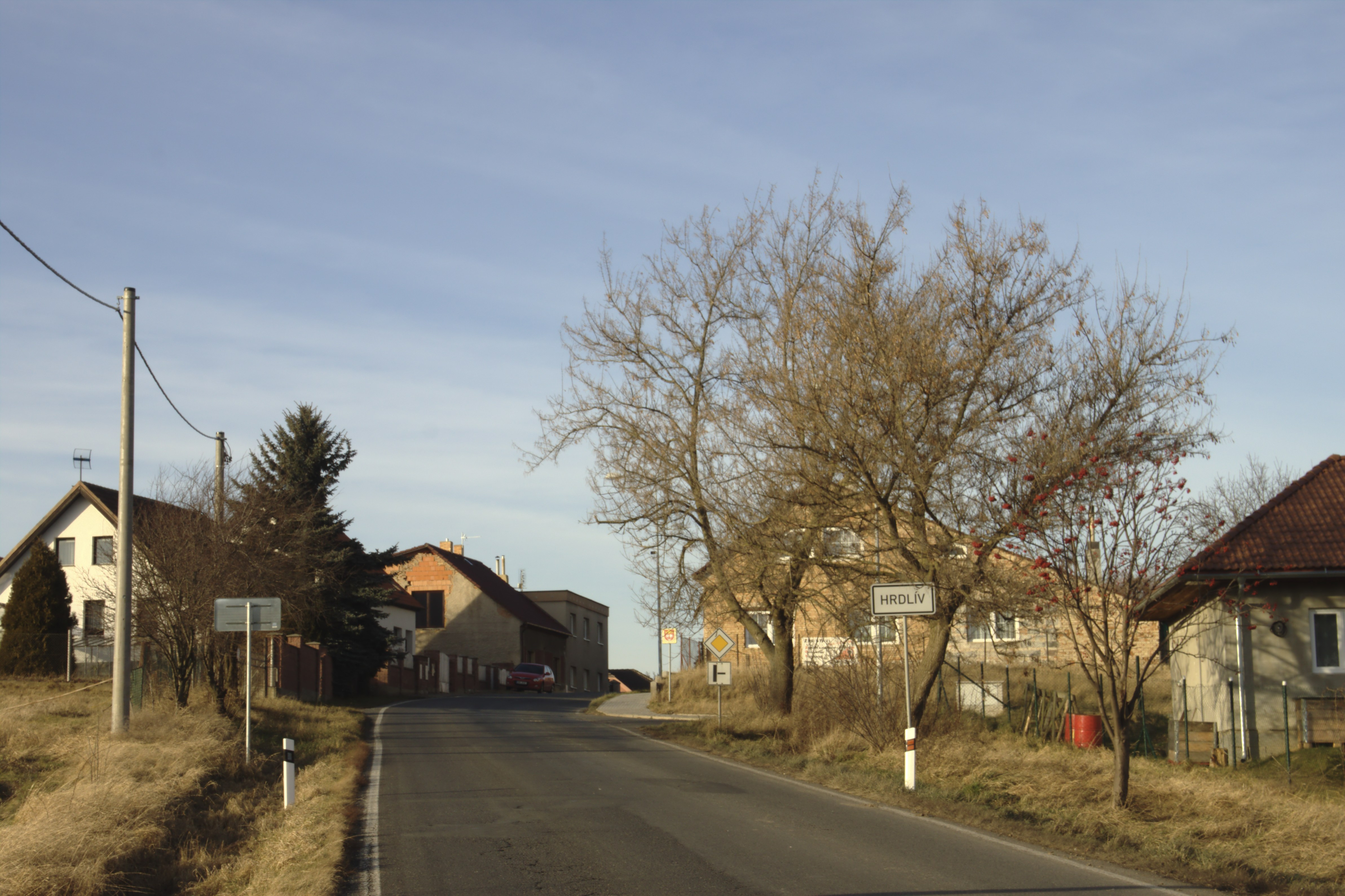 Village of Hrdlív in Kladno District, Central Bohemian Region, CZ